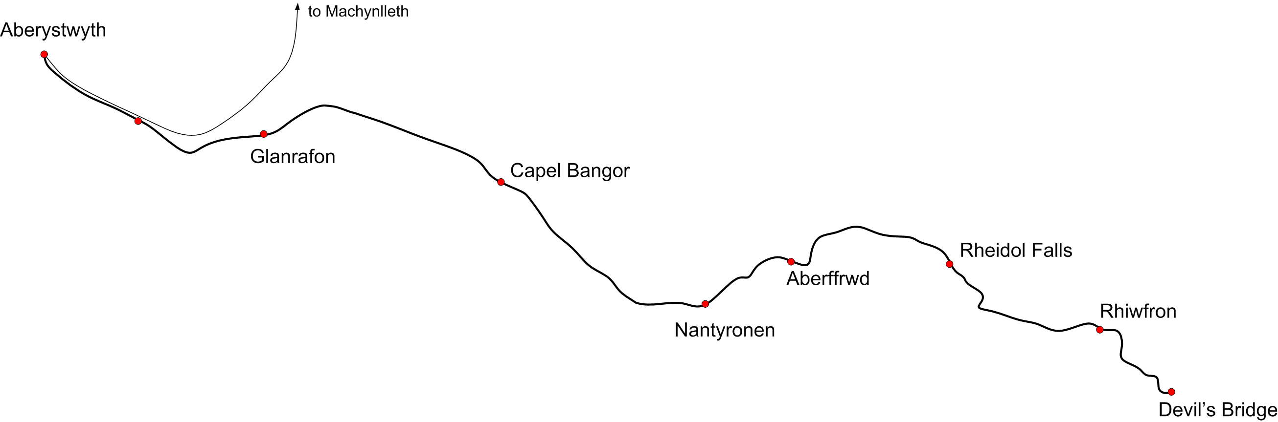 Map of the Vale of Rheidol Light Railway Author: Dan Crow